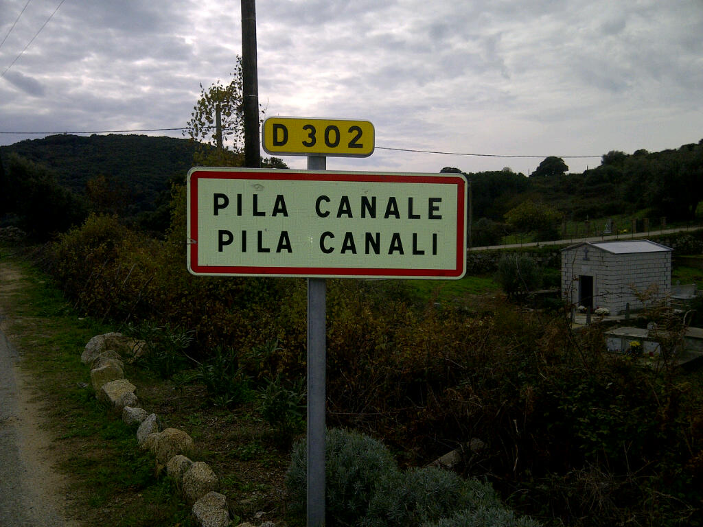 Panneau Entree ville Pila-Canale (Corsica)